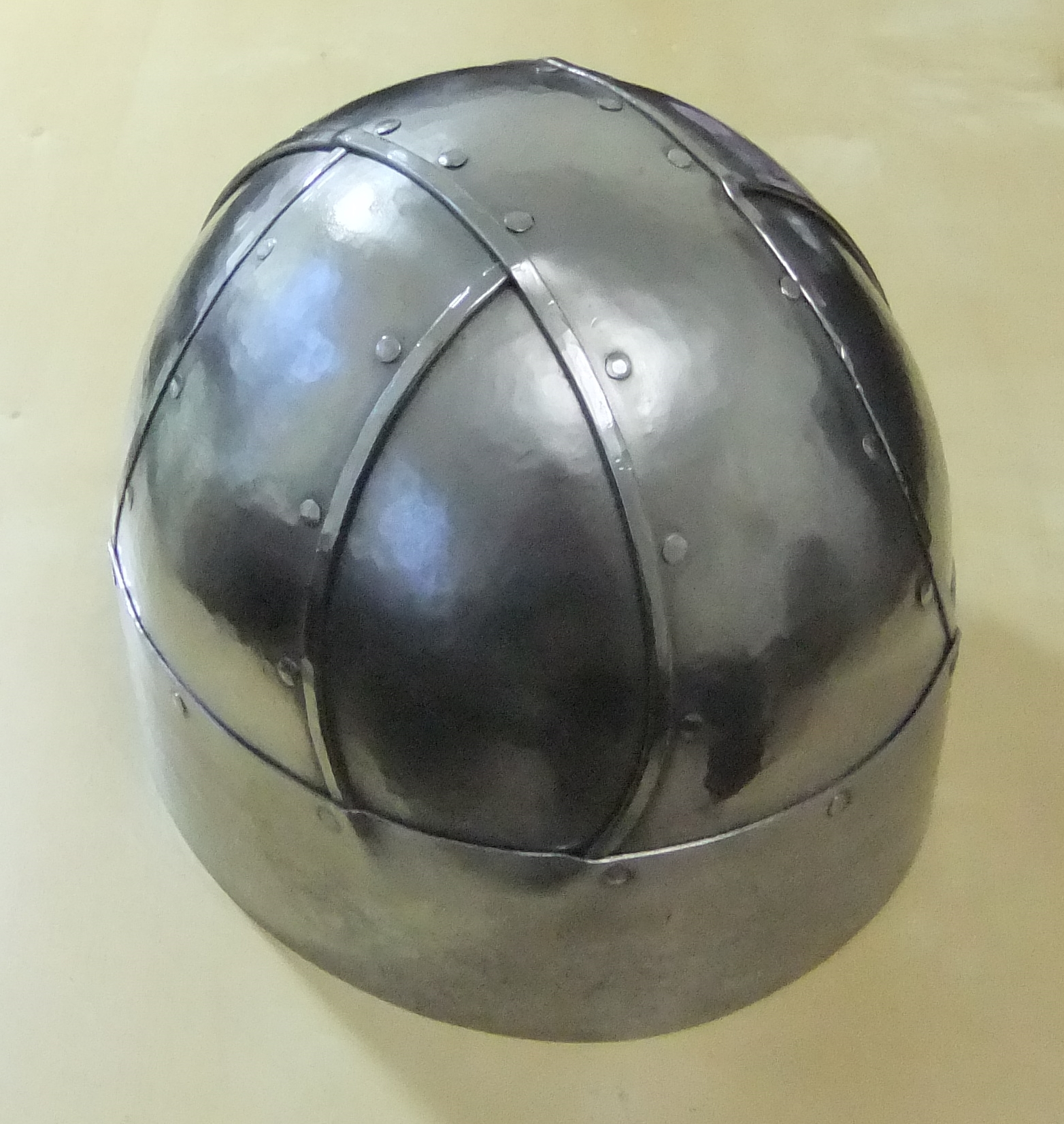 Replica of the Anglo-Saxon Shorwell helmet, made by Dave Roper (Ganderwick Creations)